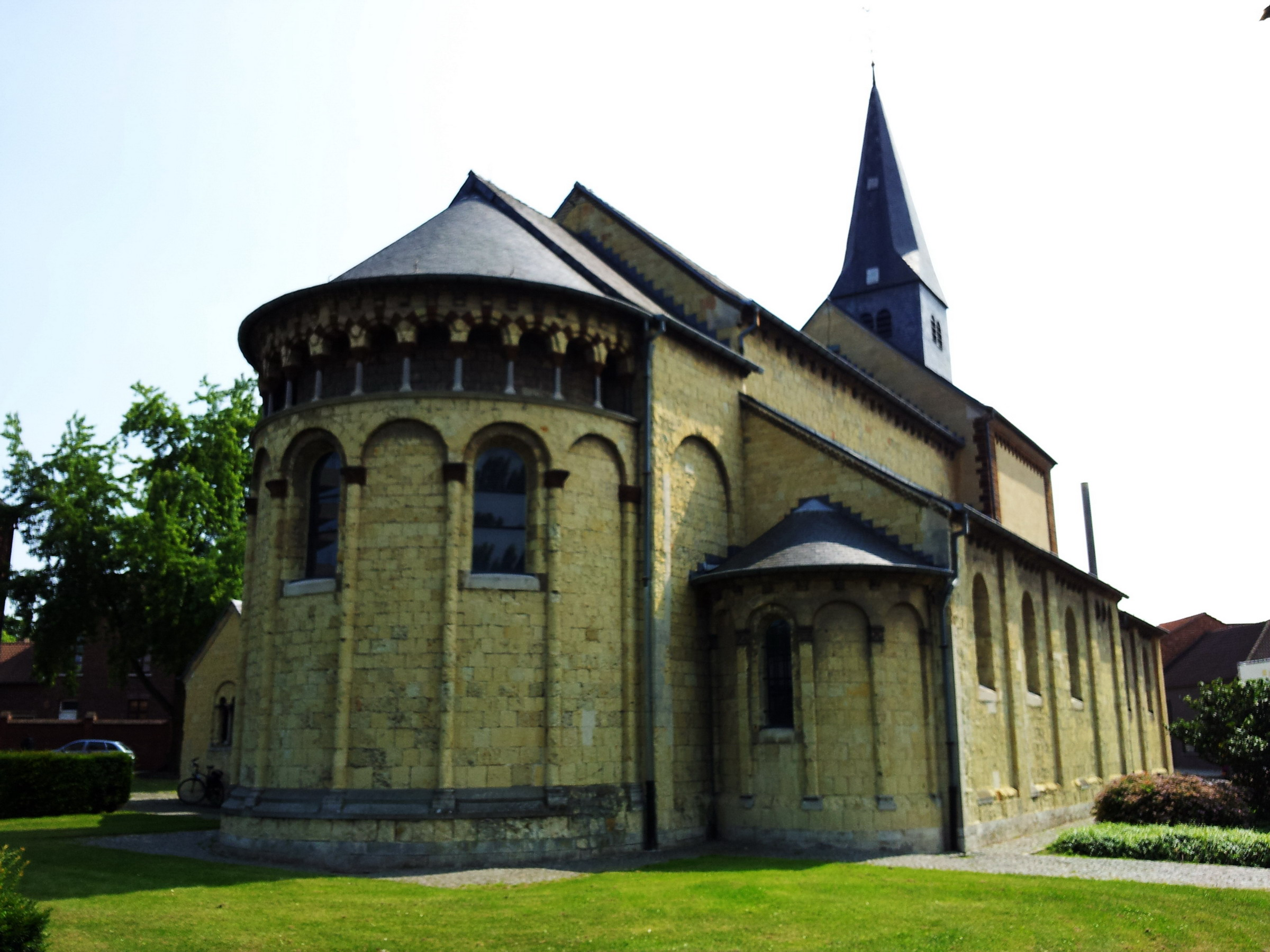 Sint-Truiden, Belgium. View from the East of the church of Saint Peter (Sint-Pieterskerk).